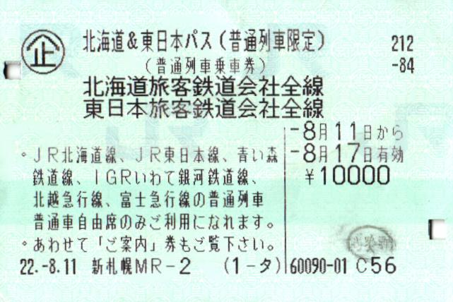 Used Hokkaido & East Japan Pass issued in Summer 2010